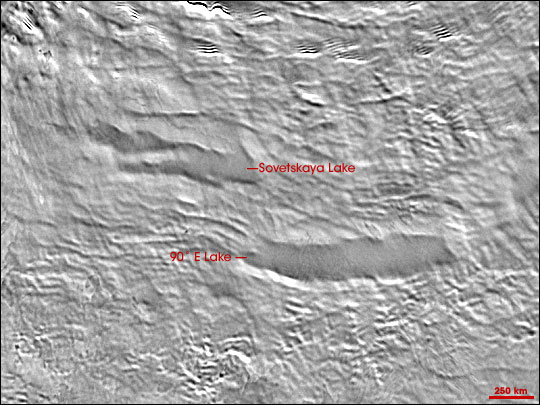 Satellite image of two subglacial lakes in Antarctica.